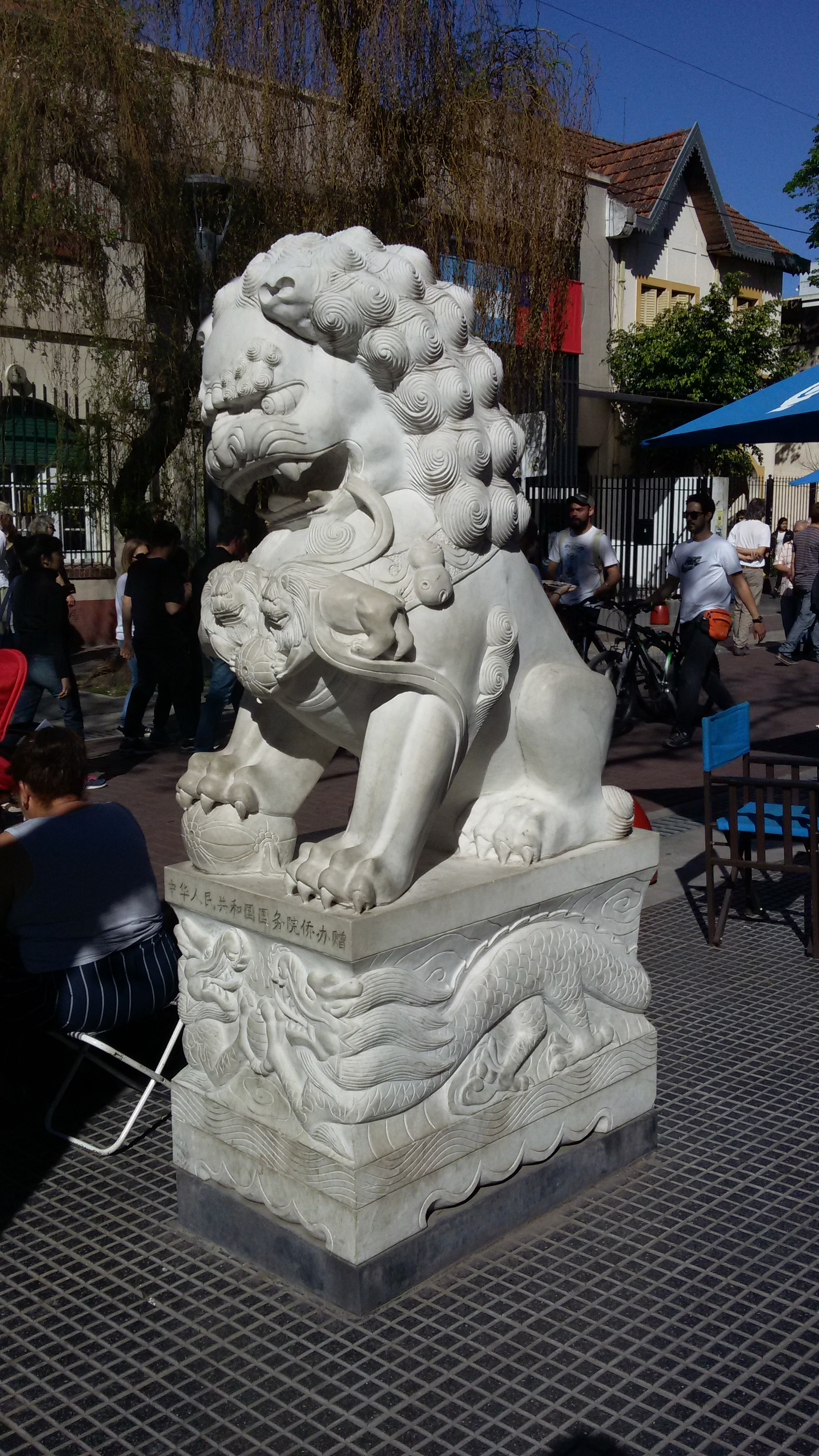 Statue of Chinese lion on Arribeños street at the Barrio Chino of Buenos Aires